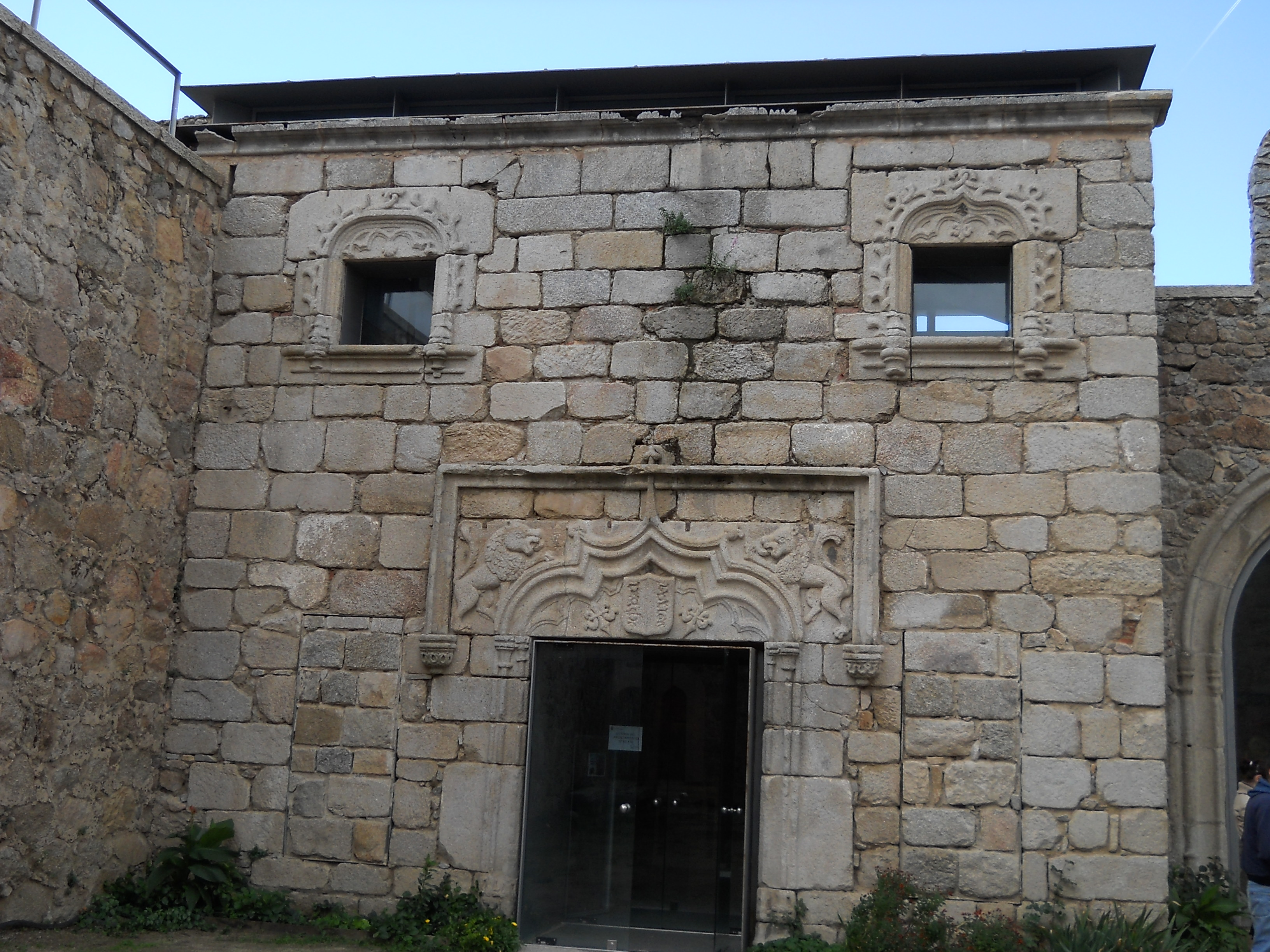 Castle San Martín de Valdeiglesias, Madrid, Spain, cellar